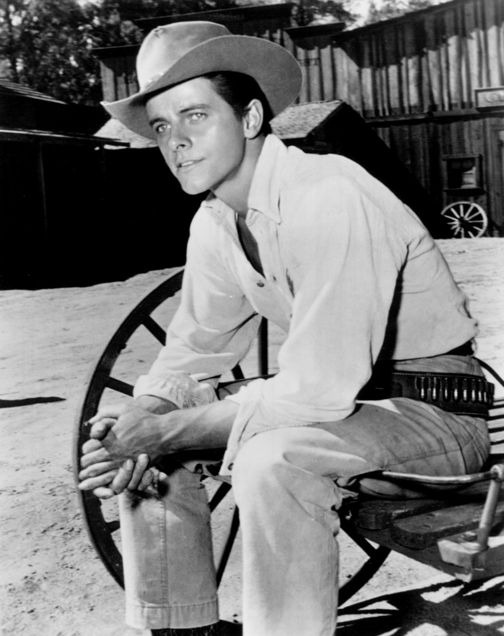 Photo of Peter Brown as Deputy Johnny McKay from the television series Lawman.